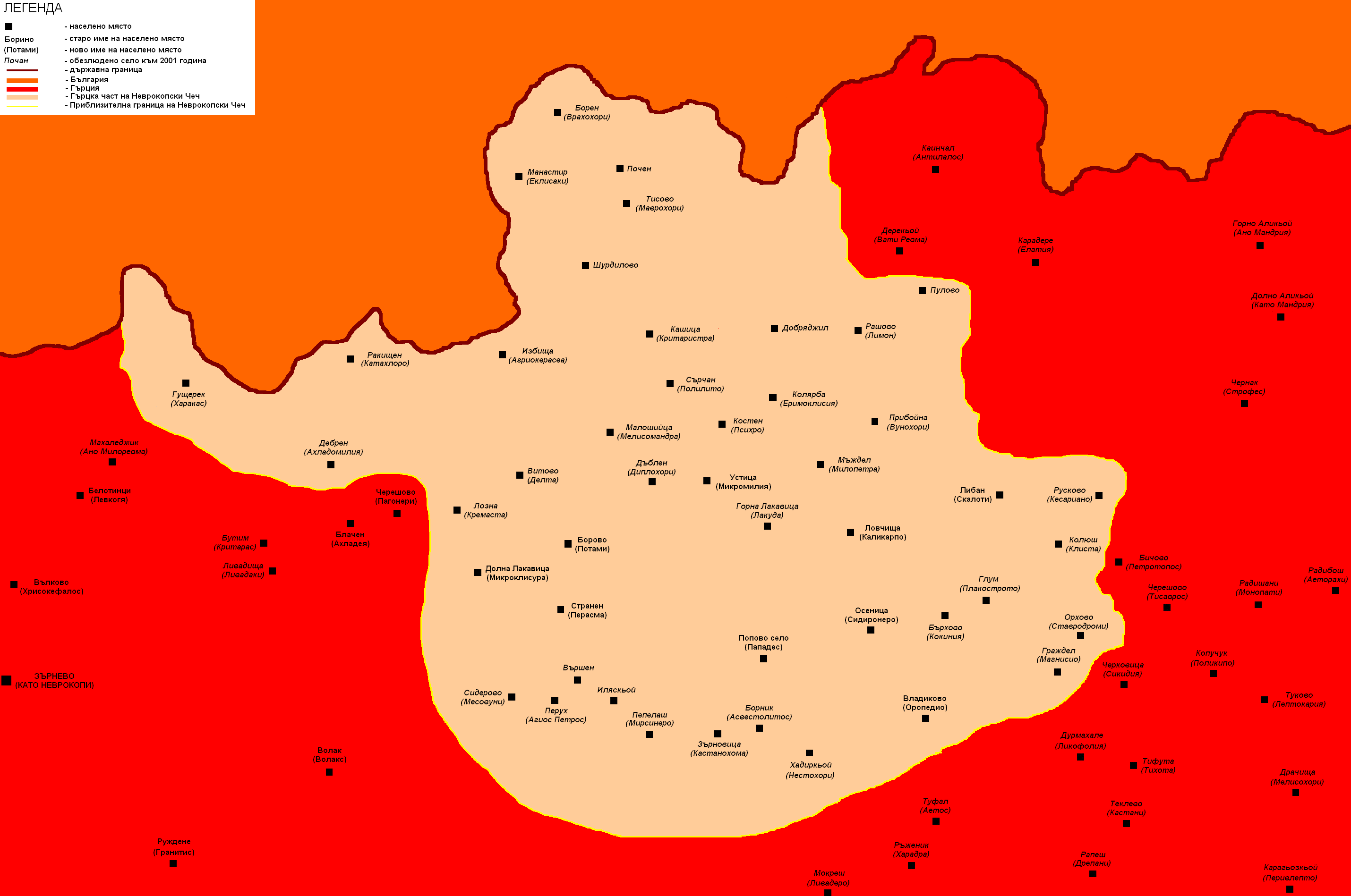 An improved map of the Greek Chech with the extinguished villages.